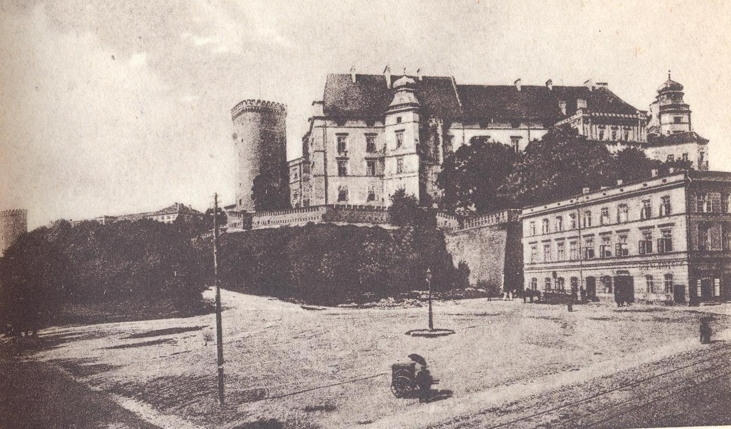 Wawel, Krakow, Poland.